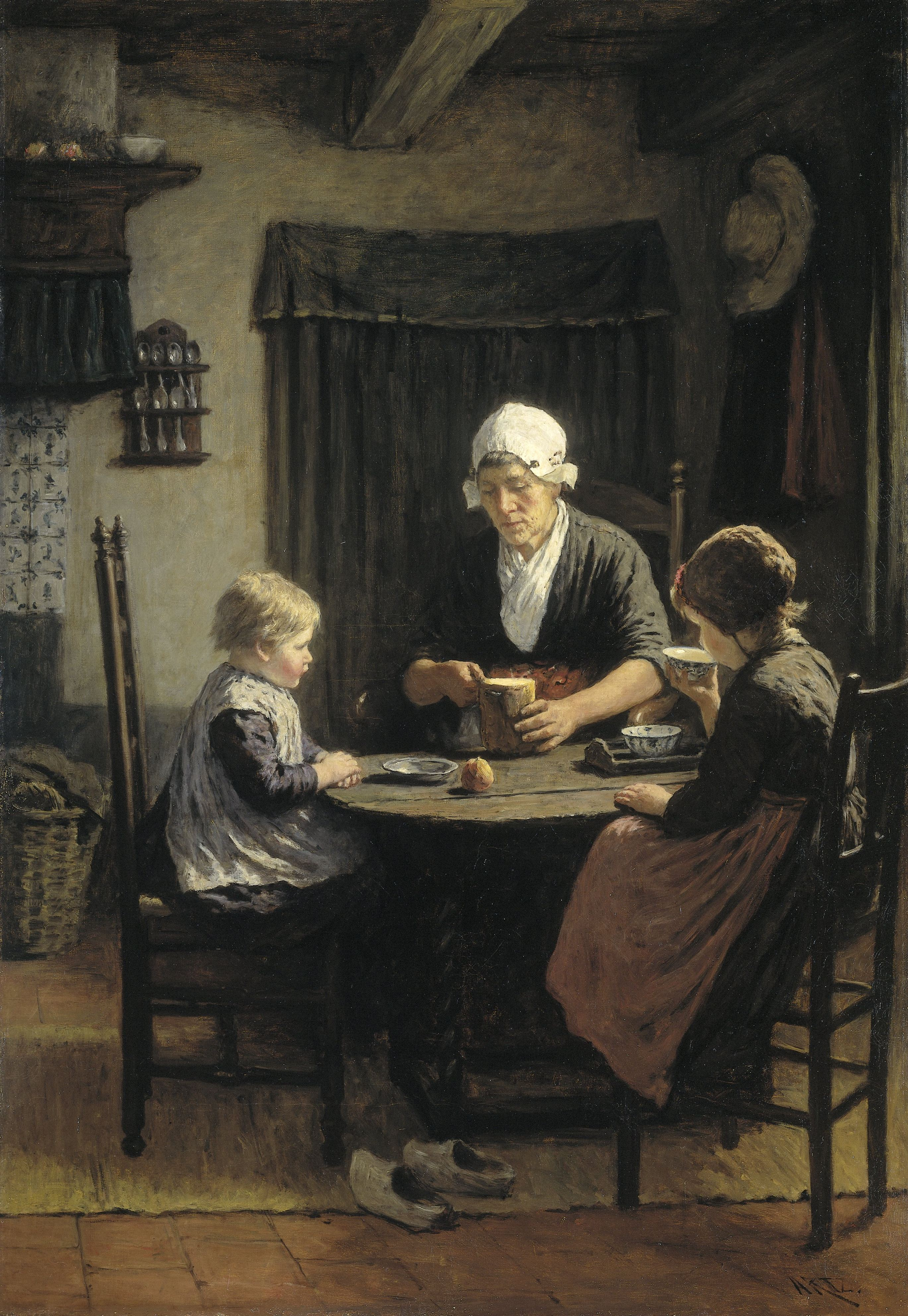 'At grandmothers'. Schevenings interior with an old woman and two children at a table.